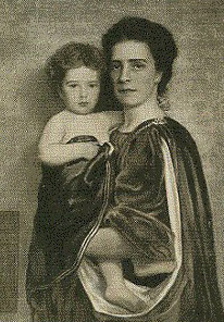 Carrie Rand Herron, American political activist, Second wife of George D. Herron